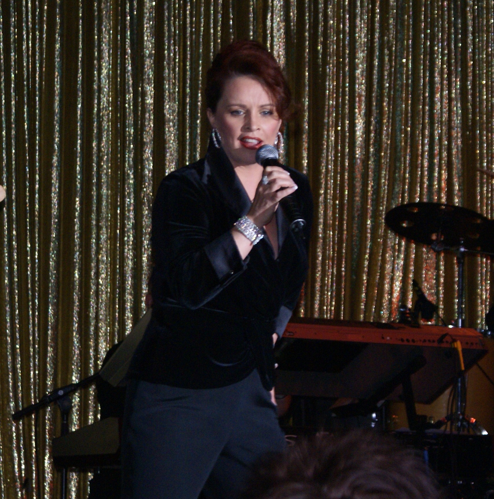 Sheena Easton in November 2009.